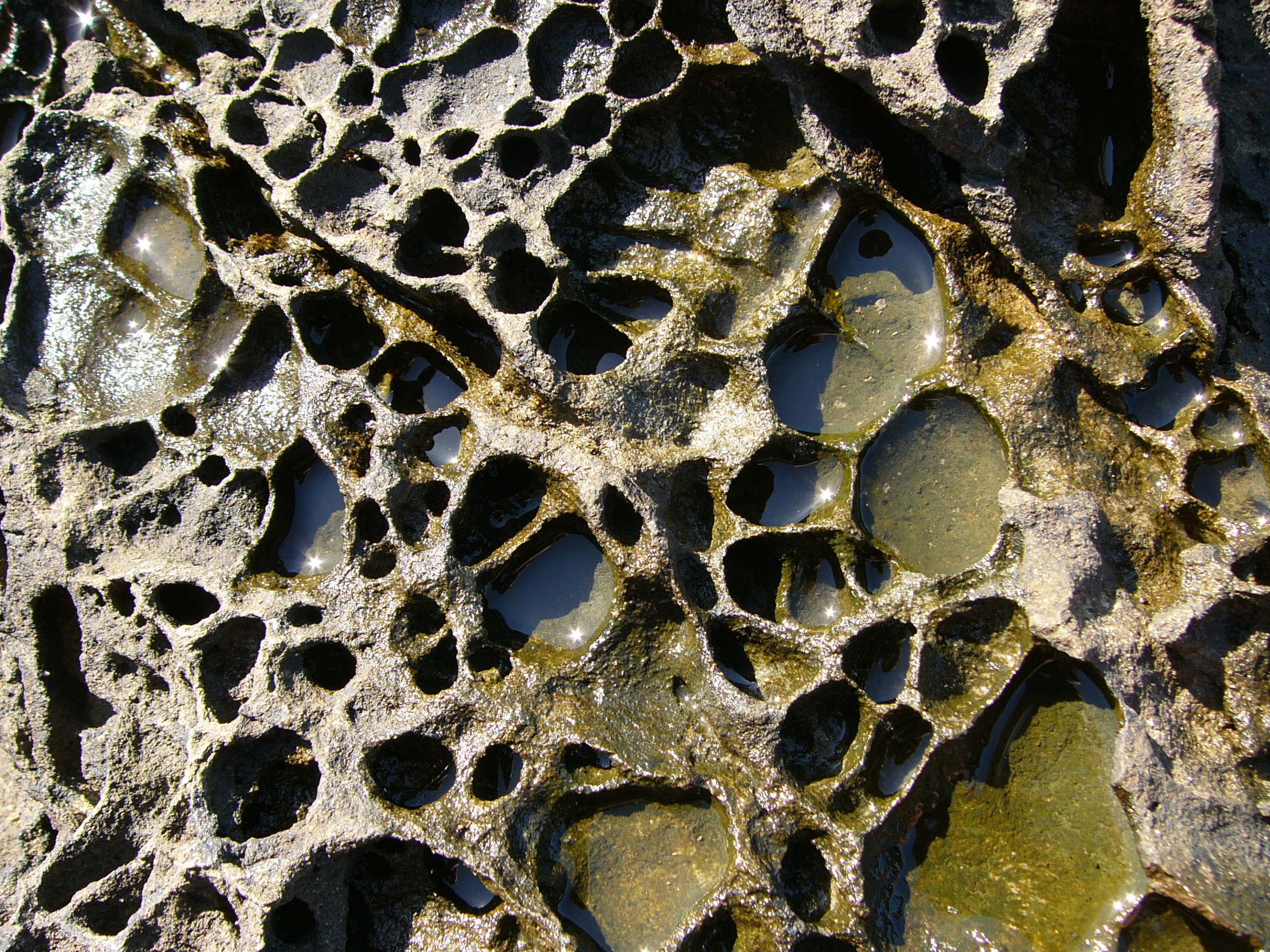 Tafoni at Mendocino Coast, California